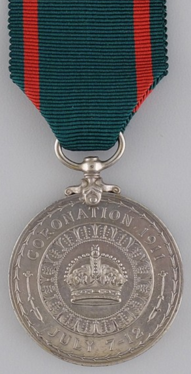 King George V's Visit to Ireland Medal, 1911, reverse. British commemorative medal.